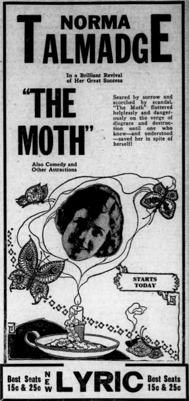 Newspaper advertisement for the American film The Moth (1917) with Norma Talmadge, on page 11 of the September 28, 1921 Duluth Herald.